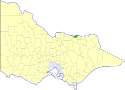 Location of the Shire of Rutherglen within Victoria.